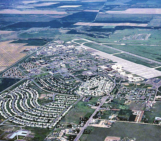 Photo of Malmstrom Air Force Base, Montana - 2009